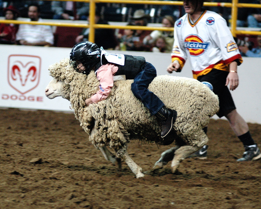 A young participant in the National Western Stock Show & Rodeo rides a sheep during “Muttin Bustin”, a segment of the 13th annual Mexican Rodeo Extravaganza on Sunday in Denver. [Arthur Mouratidis]